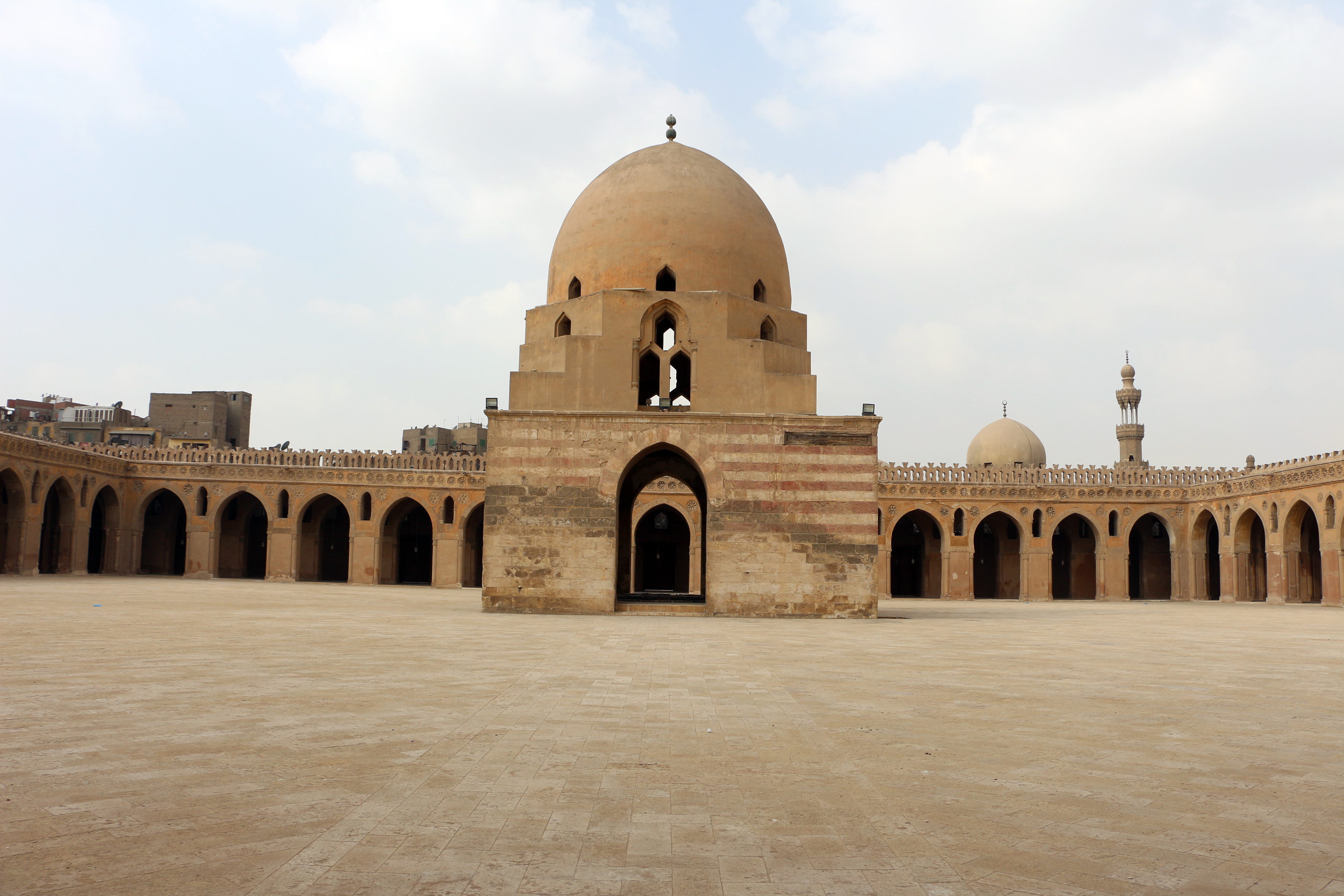 Mosque of Ibn Tulun